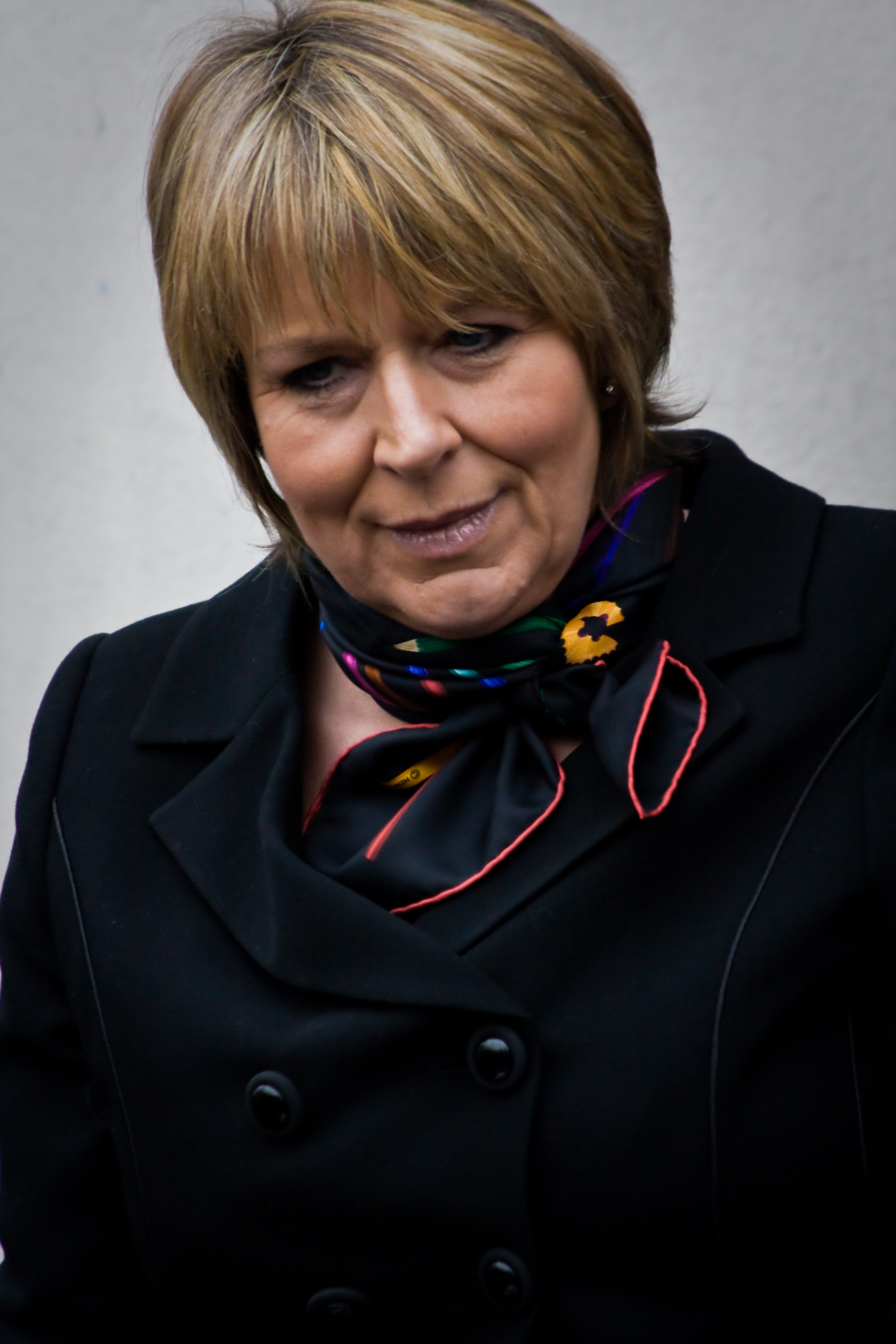 Fern Britton at the funeral service for actress Wendy Richard at St Marylebone Parish Church.